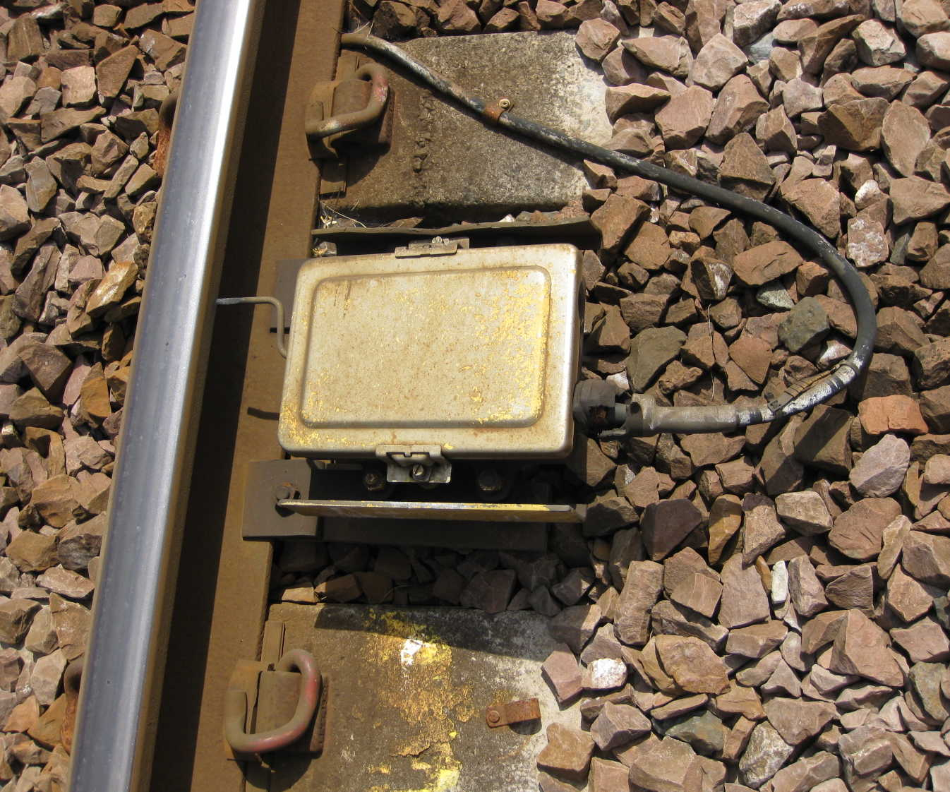 A treadle fitted to a rail, in the U.K.